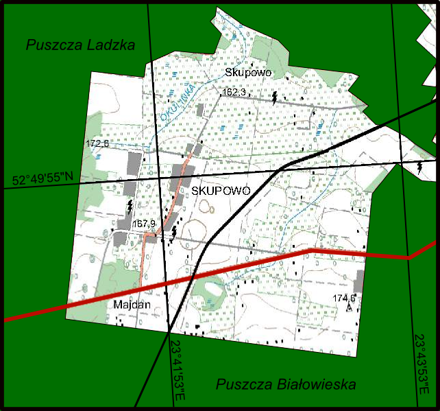 map of village Skupowo